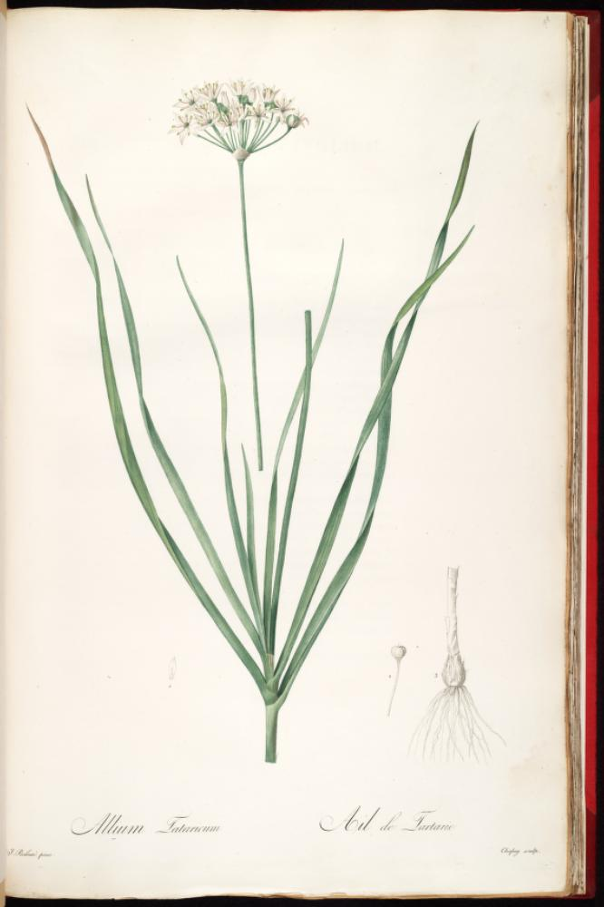 Illustration of Allium ramosum (Orig. Allium tataricum)